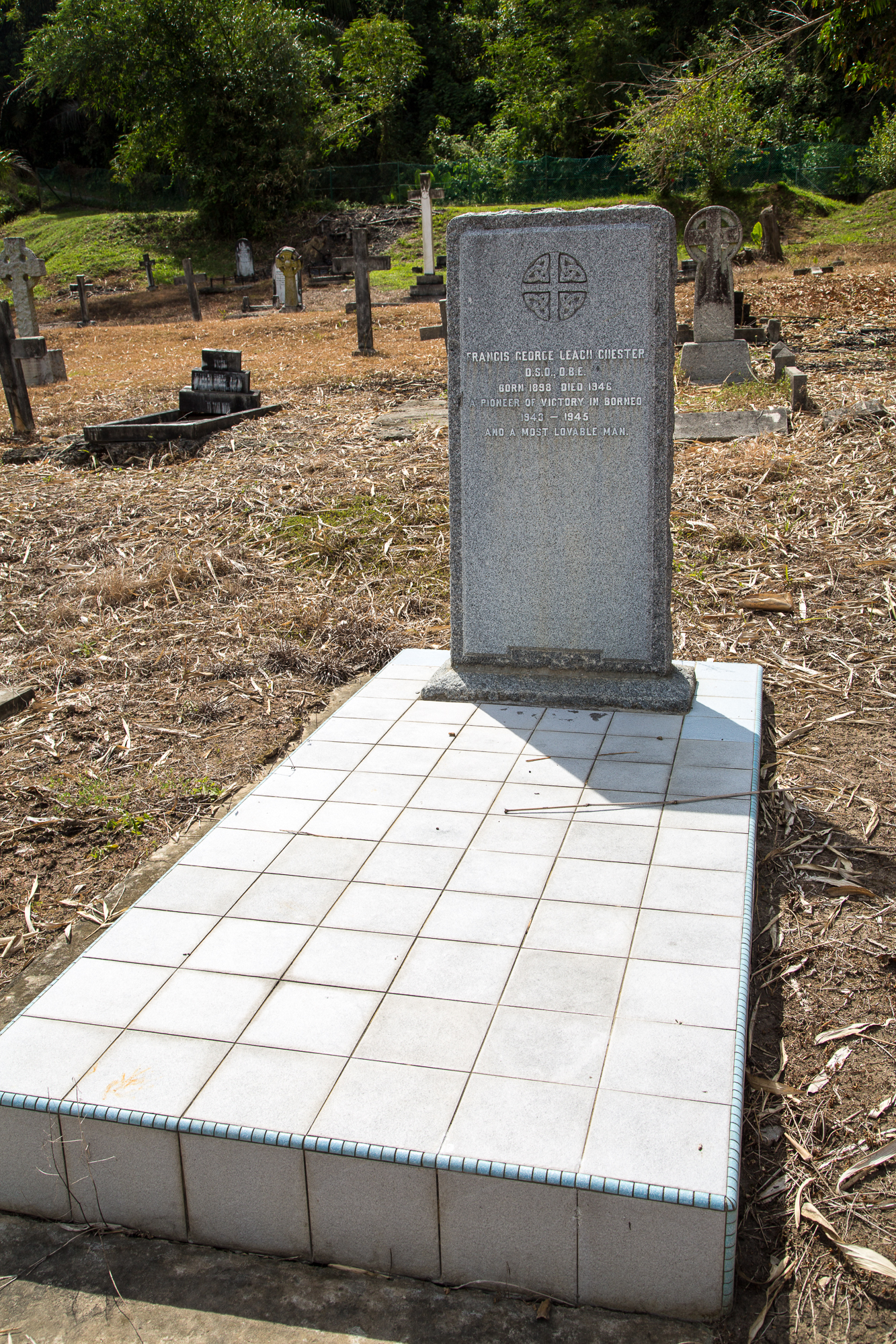 Kota Kinabalu, Sabah: Tombstone at the old anglican cemetery in Kota Kinabalu (formerly "Jesselton") Francis George leach Chester DSO OBE, born 1898 died 1946, A pioneer of victory in Borneo 1943-1945 and a most lovable man